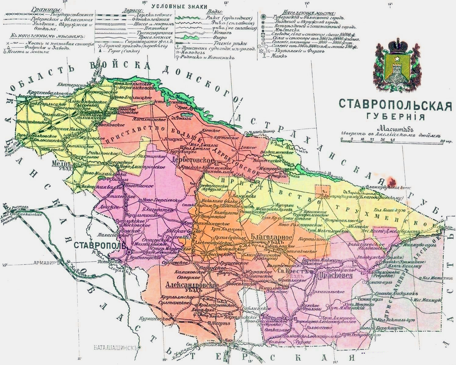 Map of Stavropol Governorate of Russian Empire